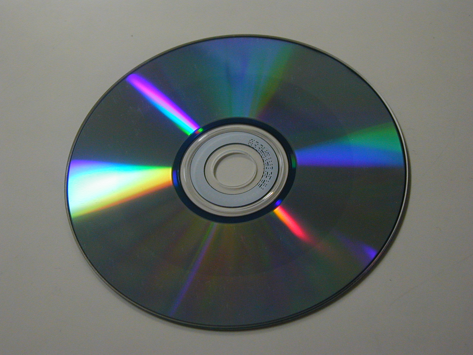 The Bottom of CD-RW